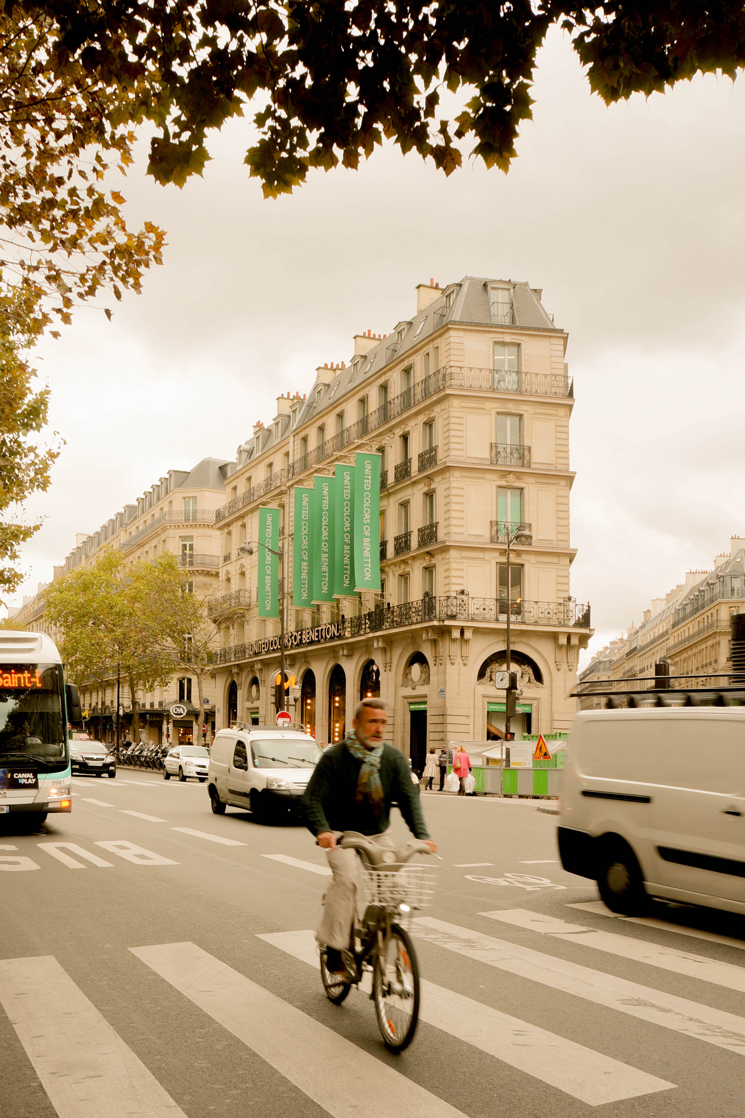 United Colors Of Benetton 51 Boulevard Haussmann 75008 Paris.